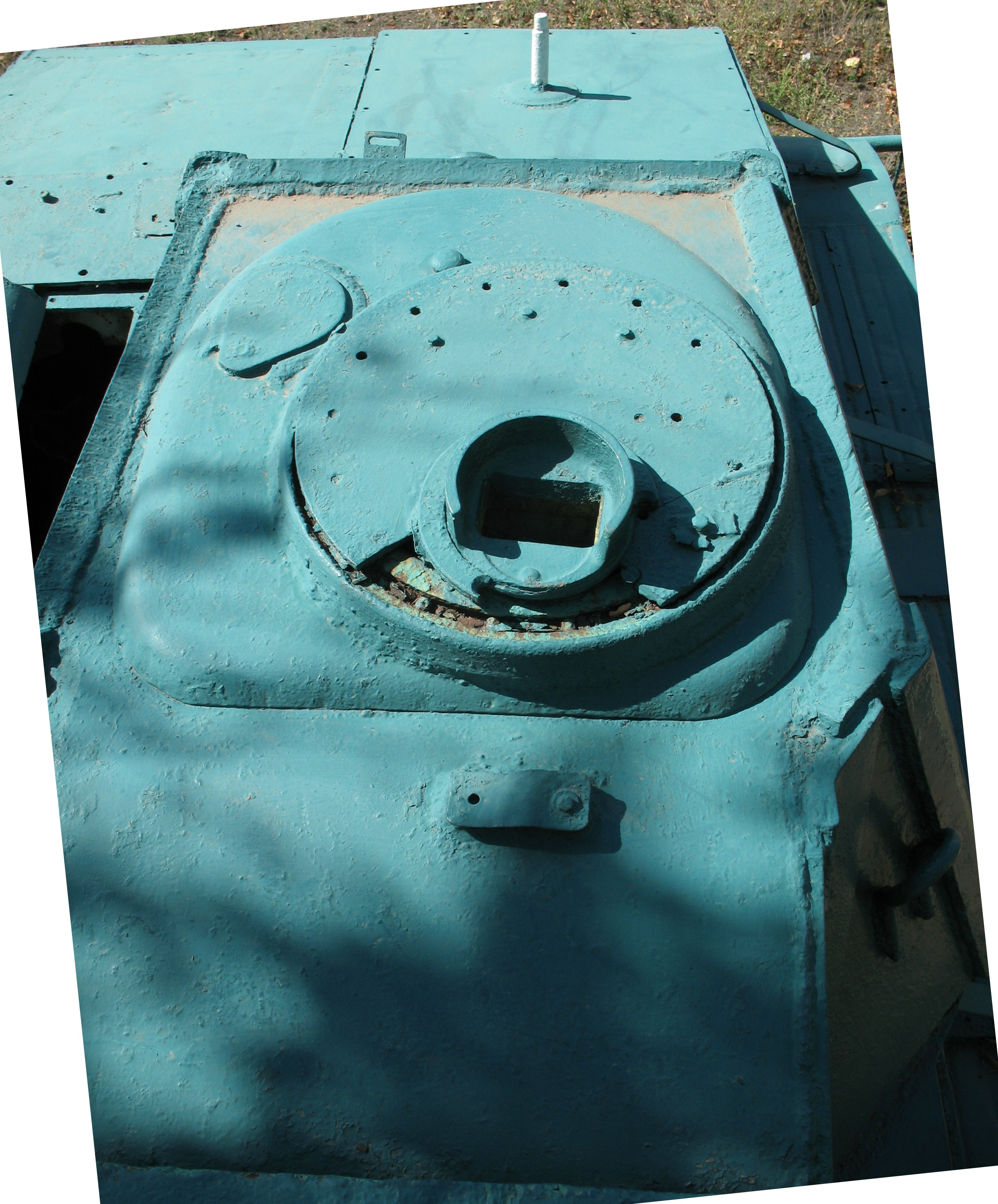 T-70M Soviet WWII tank. Monument in Solonitsevka.